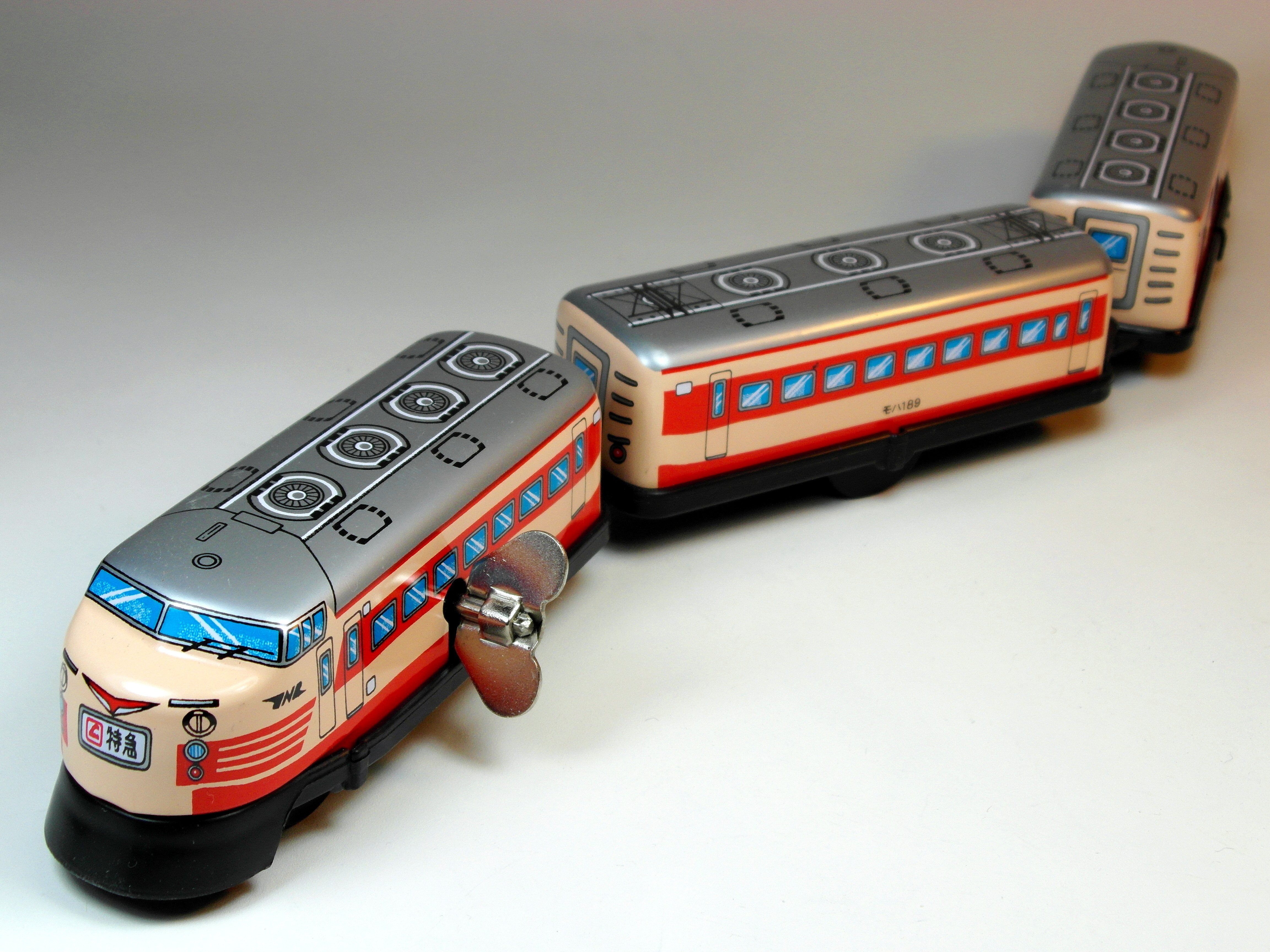 More pictures of My Toy Museum's at Flickr. Most of those toys do still have copyrights so i can't publish them here!